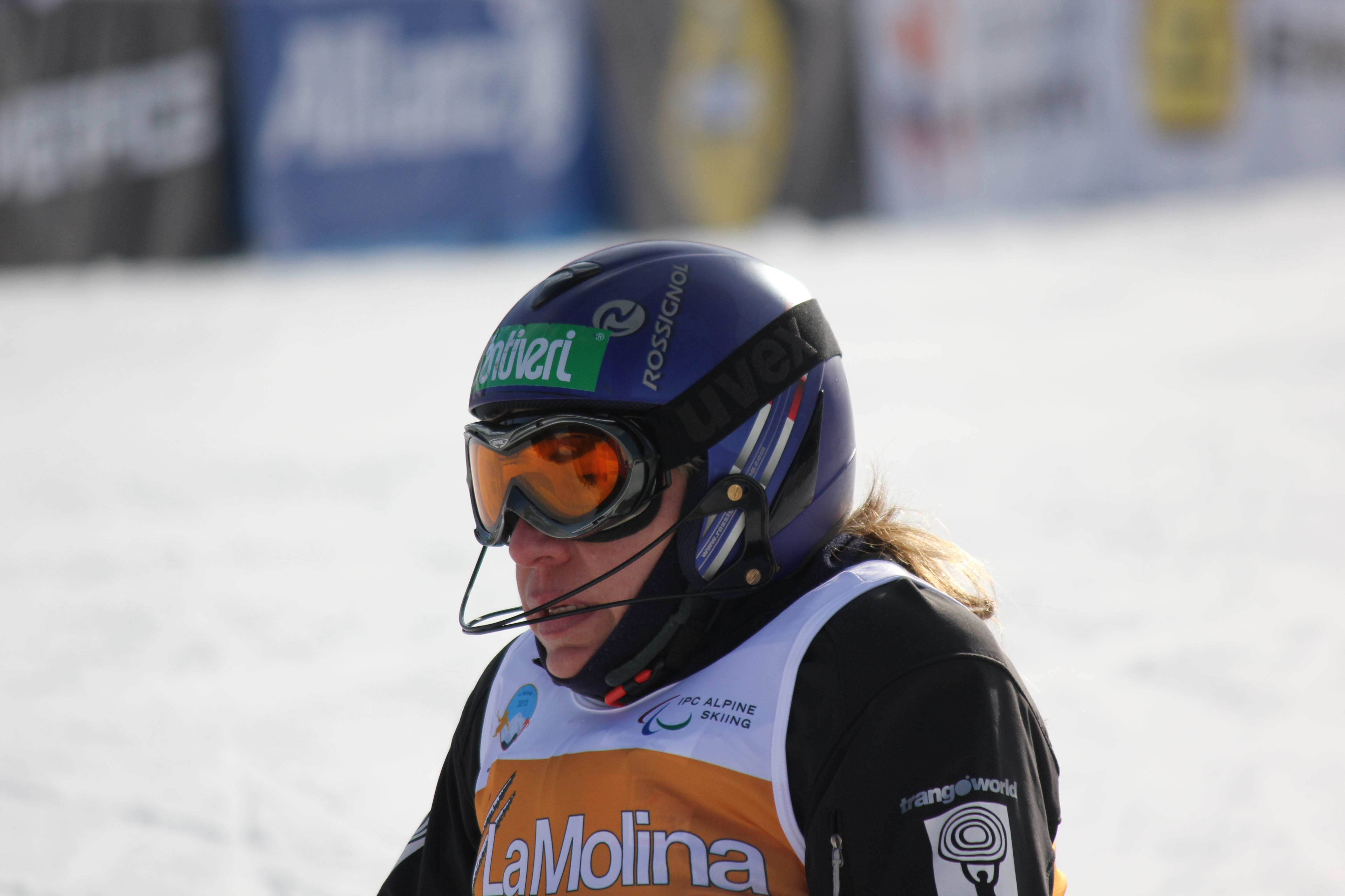 Nathalie Carpanedo of Spain. 2013 IPC Alpine World Championships at La Molina in Spain. Day 3 of competition. Slalom final.